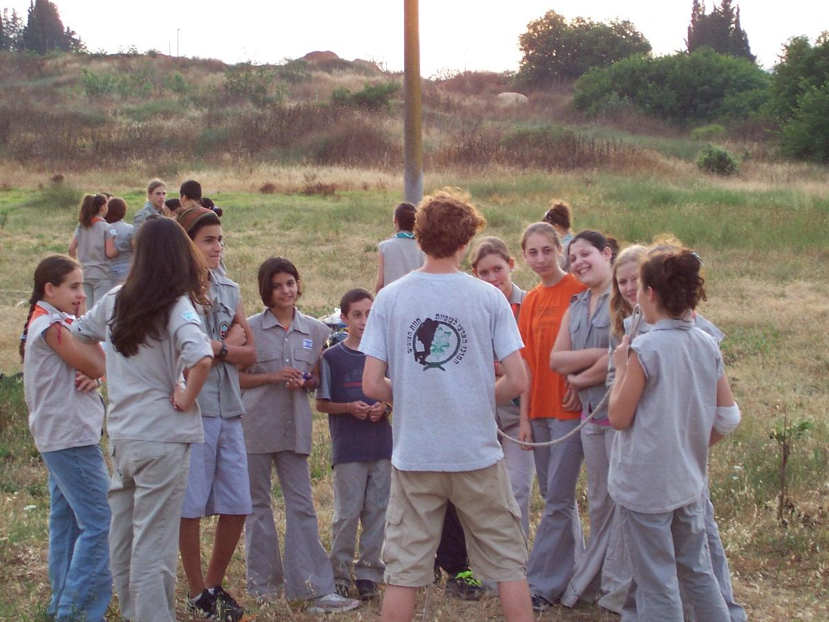 Playing in the Scouts